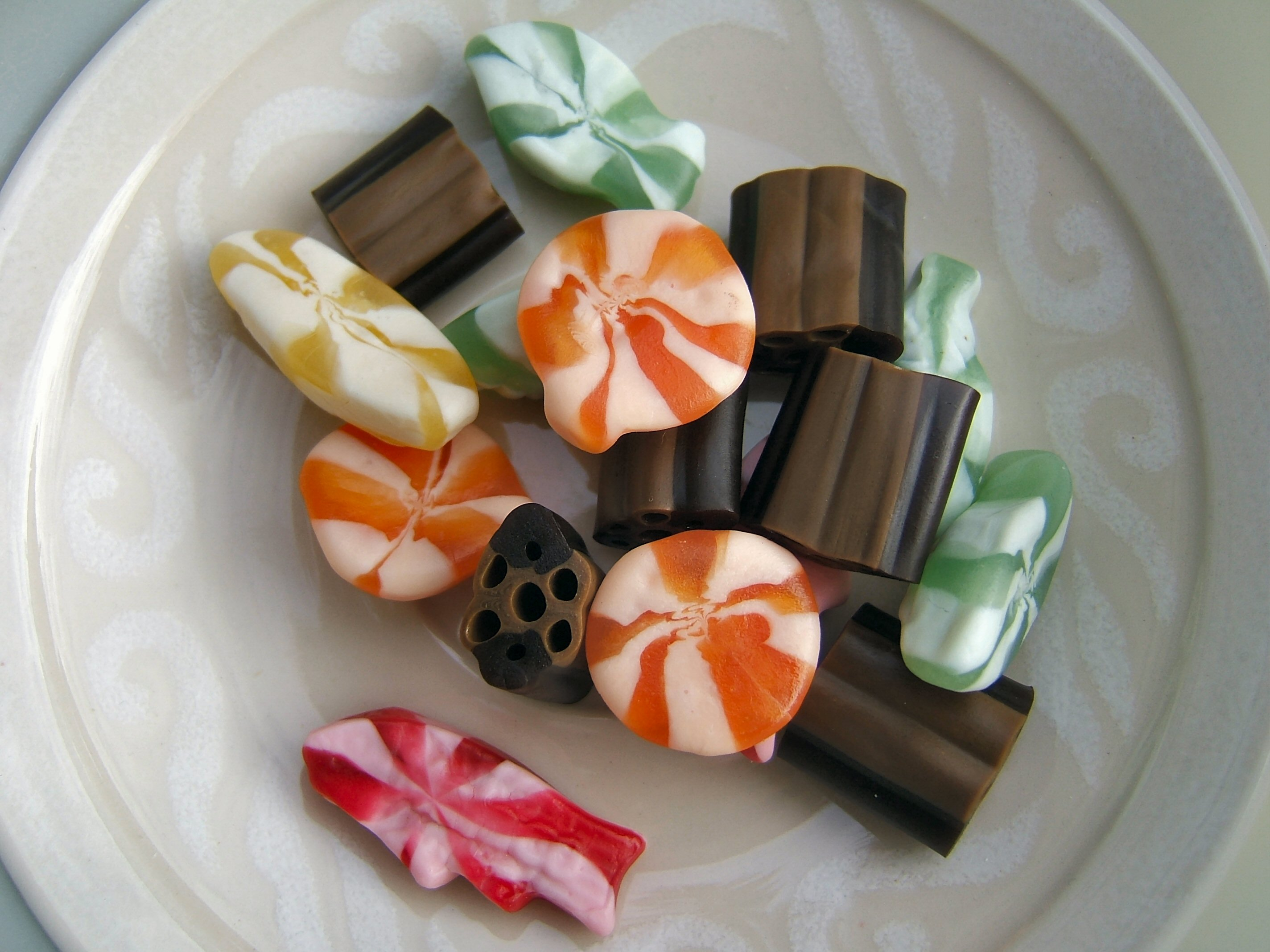 Candy ("Hyvää makumaasta Creemy" by Malaco) on a plate of "Vanilja" series by Pentik.